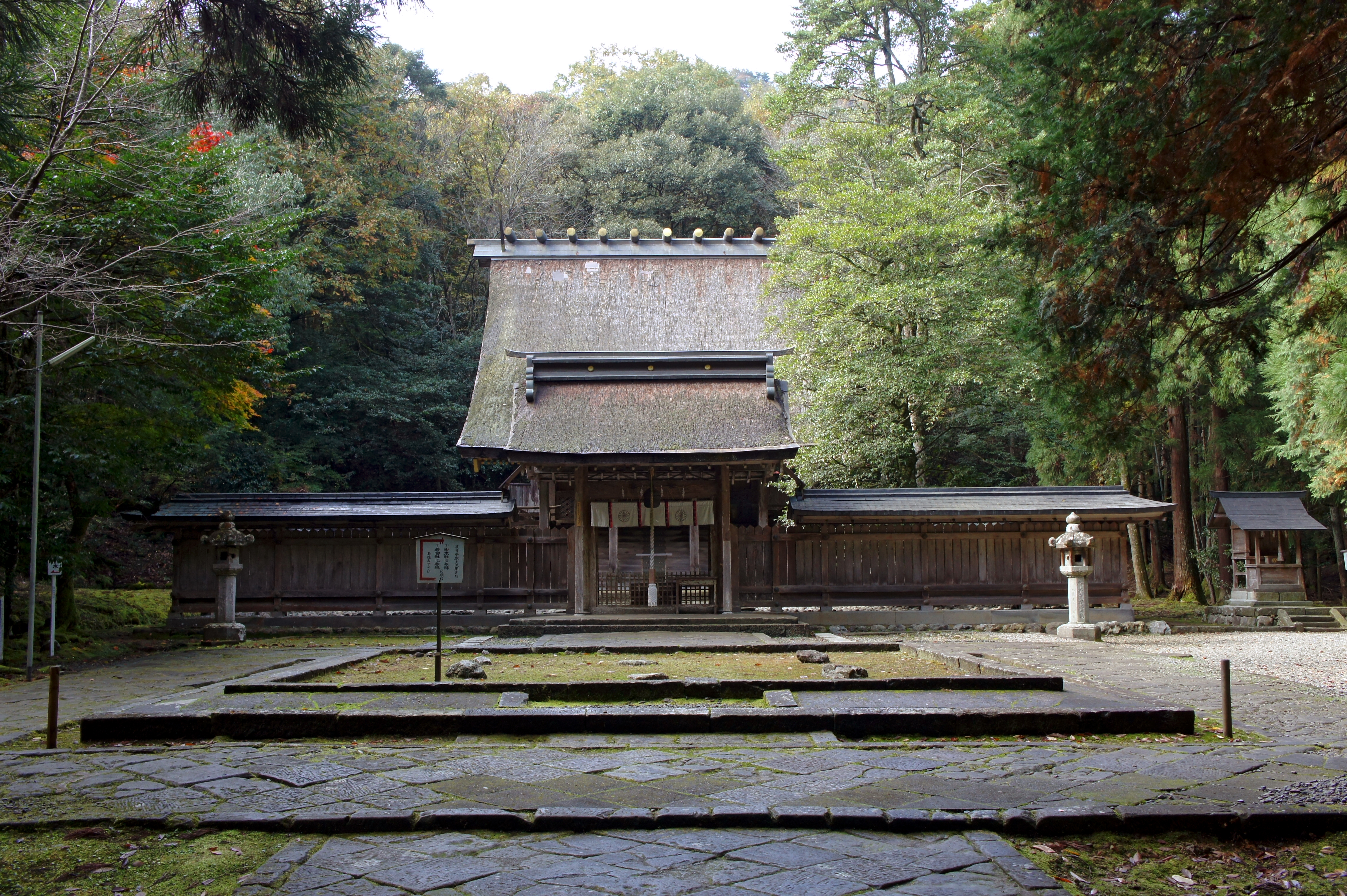 Wakasa-Hiko-jinja in Obama, Fukui prefecture, Japan.